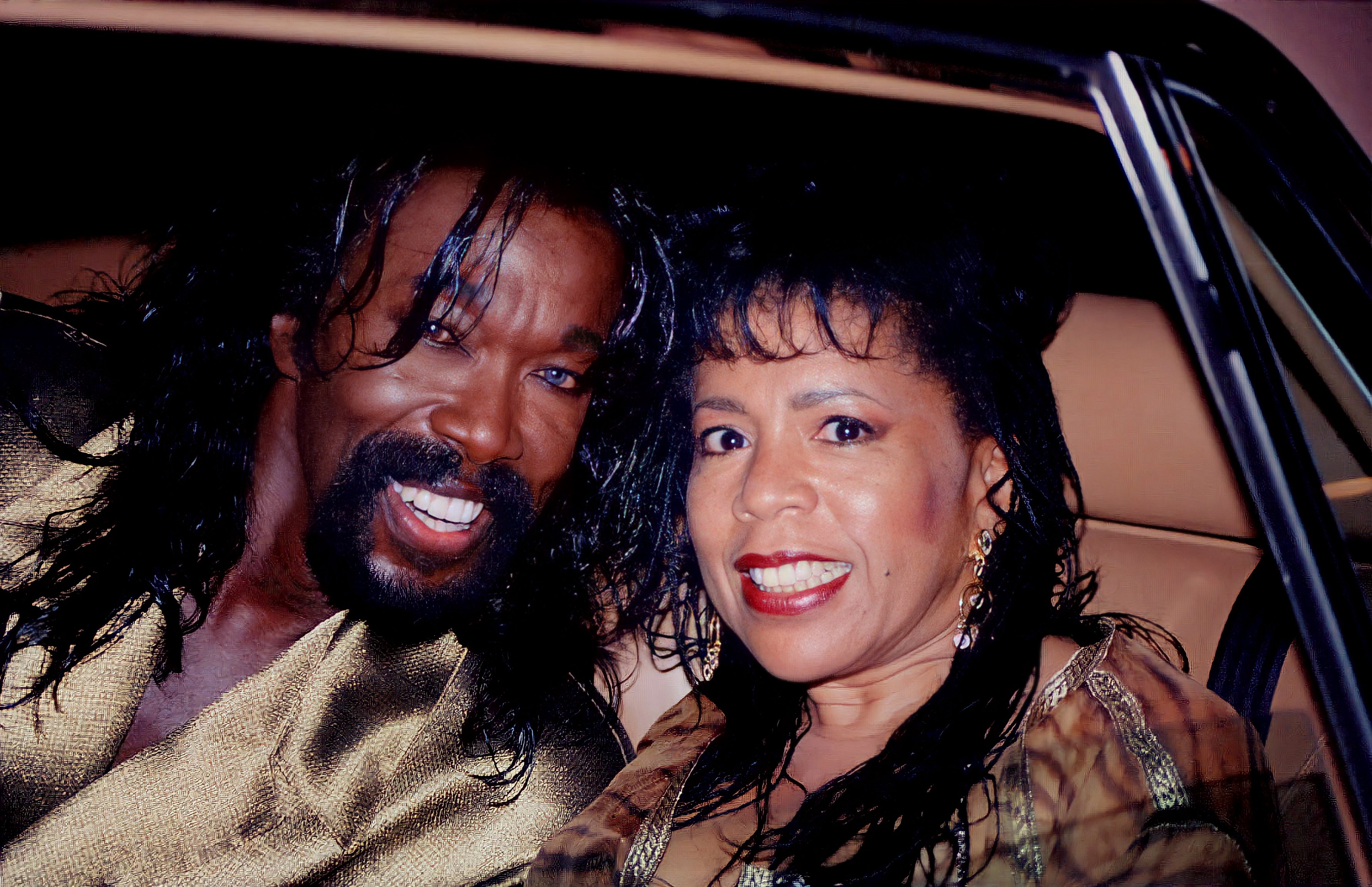 March 6, 2000 outside Waldorf Astoria R and R hall of fame event © copyright JohnMathewSmith 2001